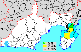 The location of Kannami in Shizuoka Prefecture, Japan